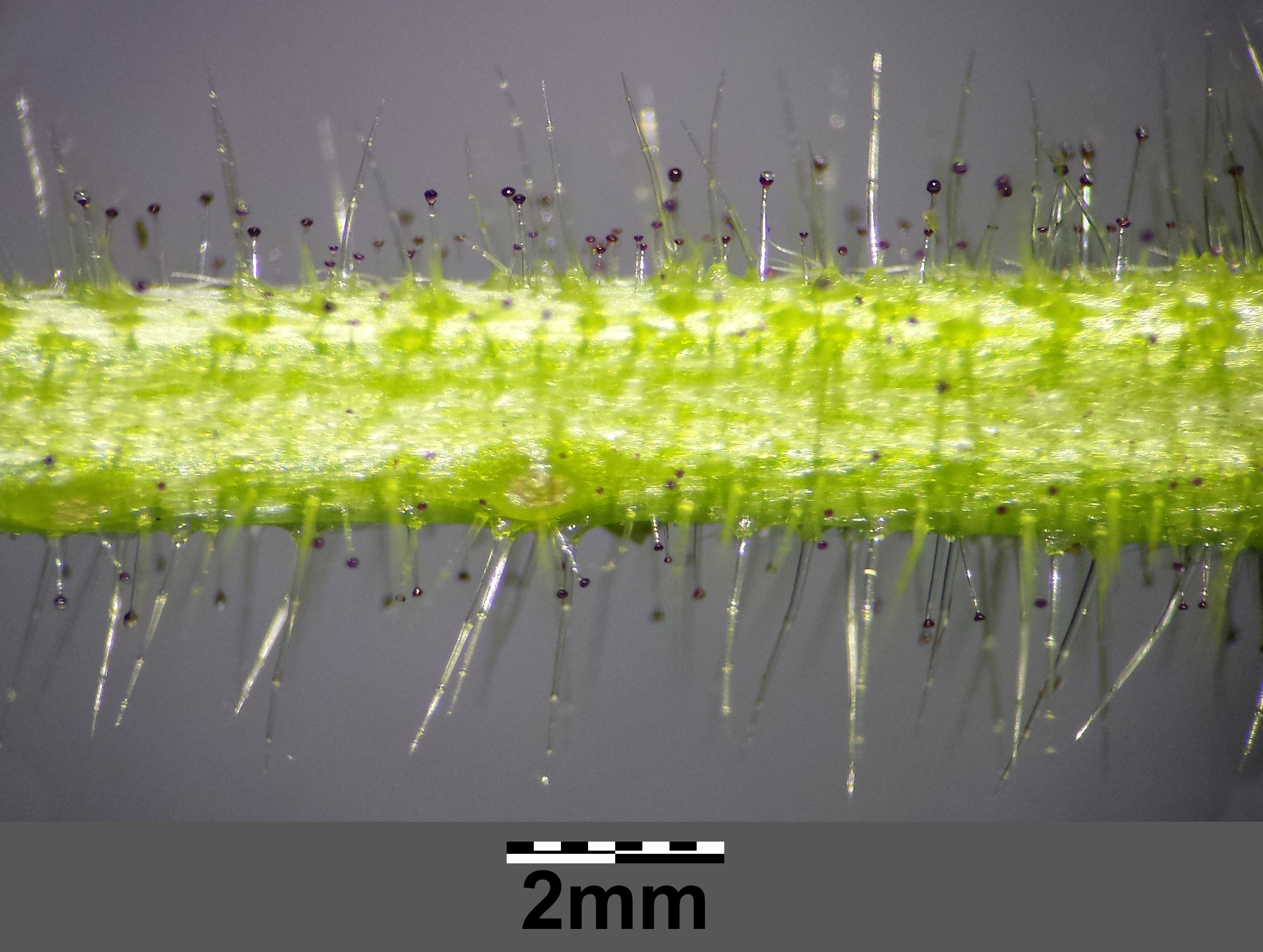 Stipe Taxonym: Galeopsis tetrahit ss Fischer et al. EfÖLS 2008 ISBN 978-3-85474-187-9 Location: near Arbesbach, Groß-Gerungs, district Zwettl, Lower Austria - ca. 850 m a.s.l. Habitat: border of a field